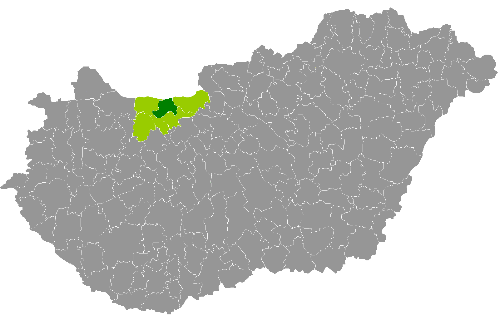 Location of Tata District, Komárom-Esztergom, Hungary